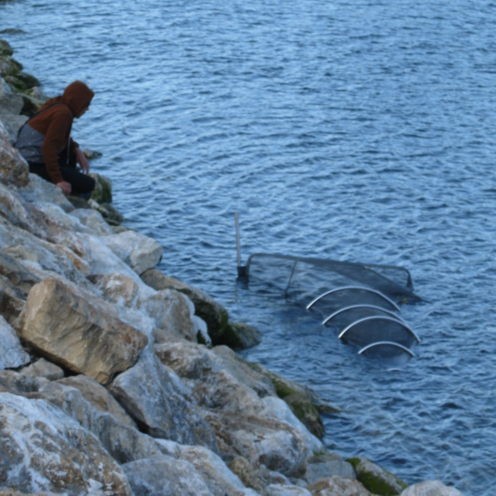 A man in a hoodie waits on a flood-control bank watching his whitebair net in the lower reaches of the Hutt River in New Zealand